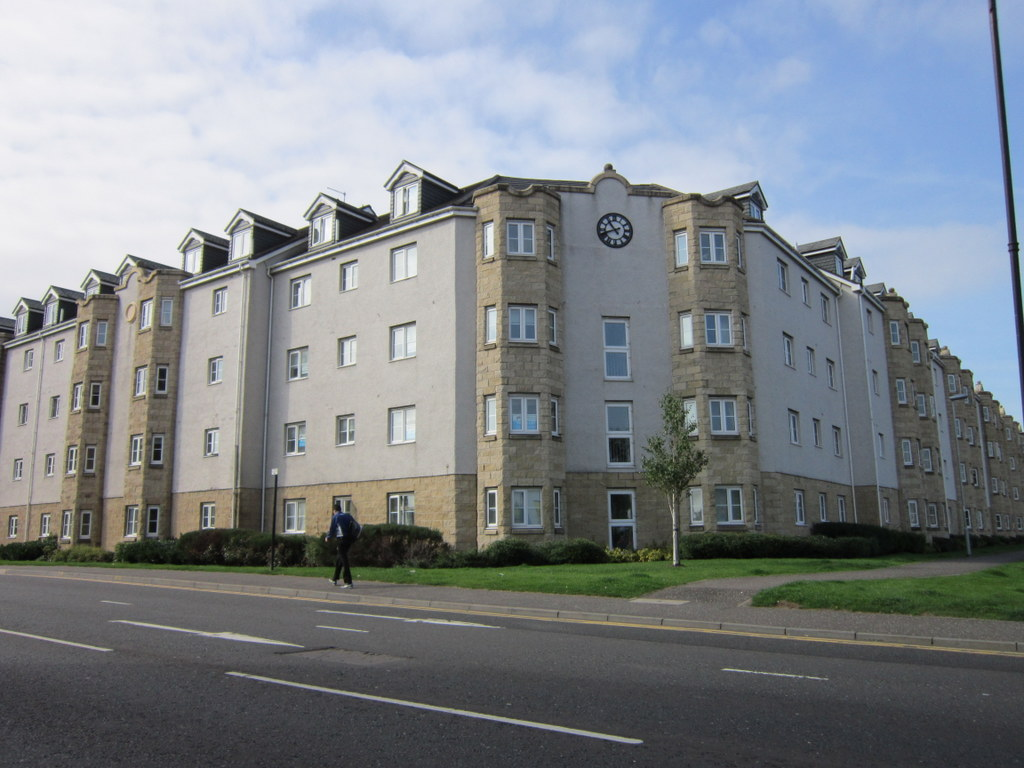 Flats on Dalmarnock Road